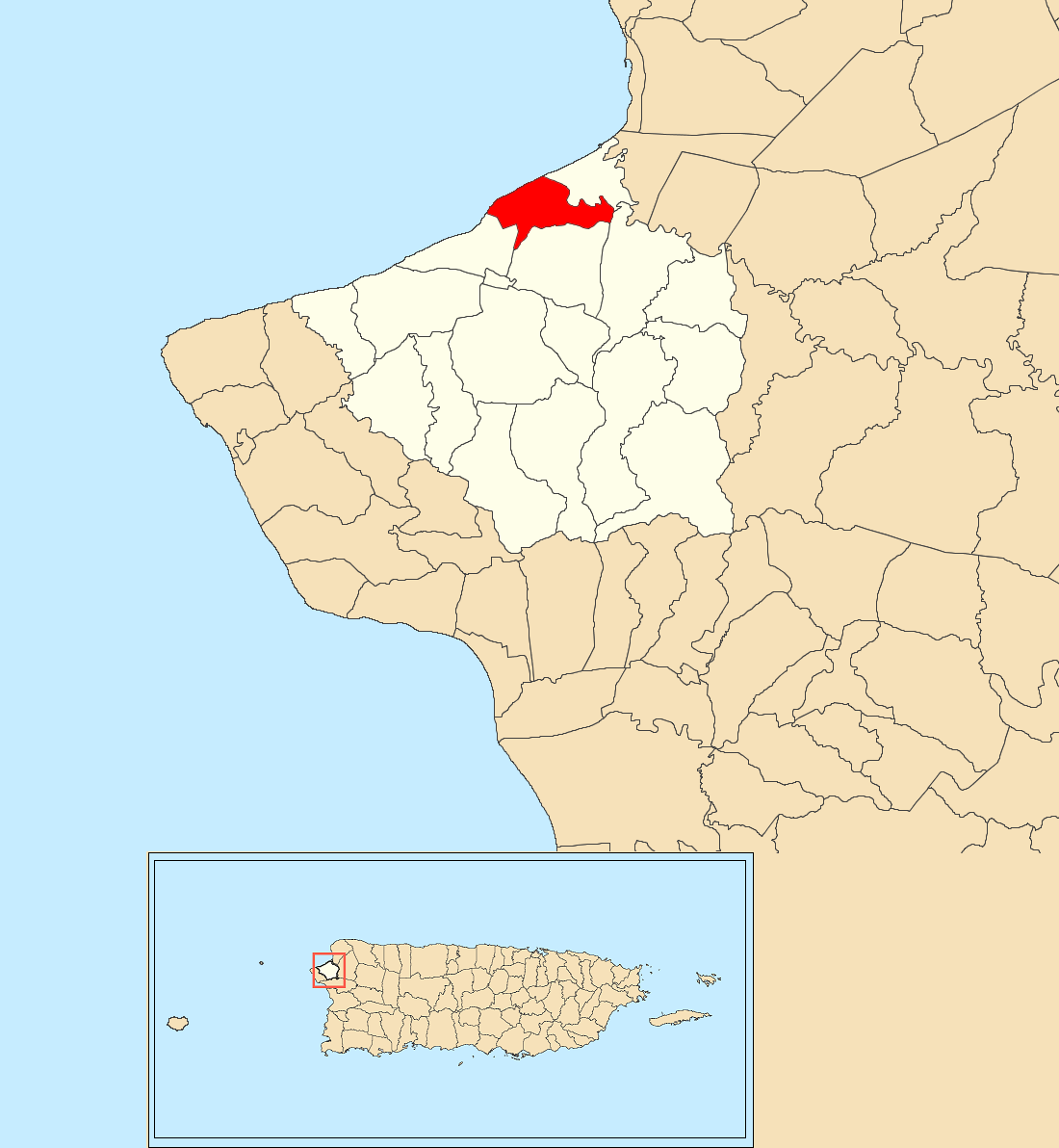 Carrizal, Aguada, Puerto Rico locator map